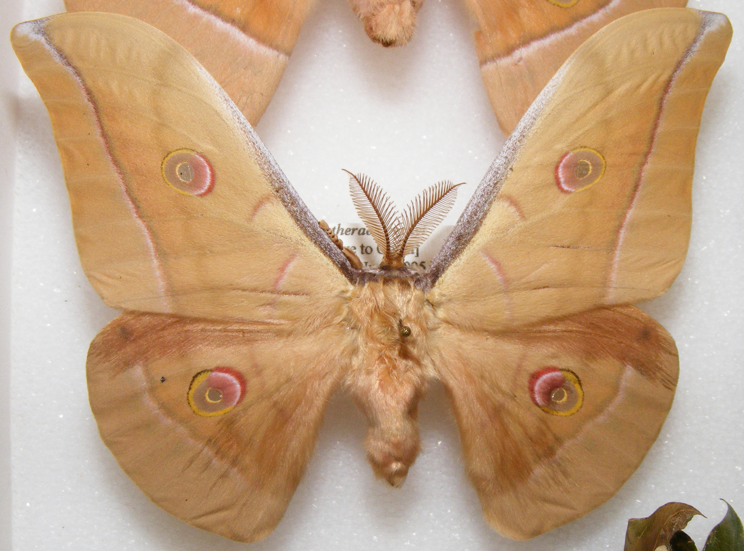 Antheraea yamamai adult male from the Texas A&M University Insect Collection